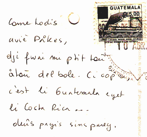 Walon: cwåte poståle e walon (do Gwatemala)